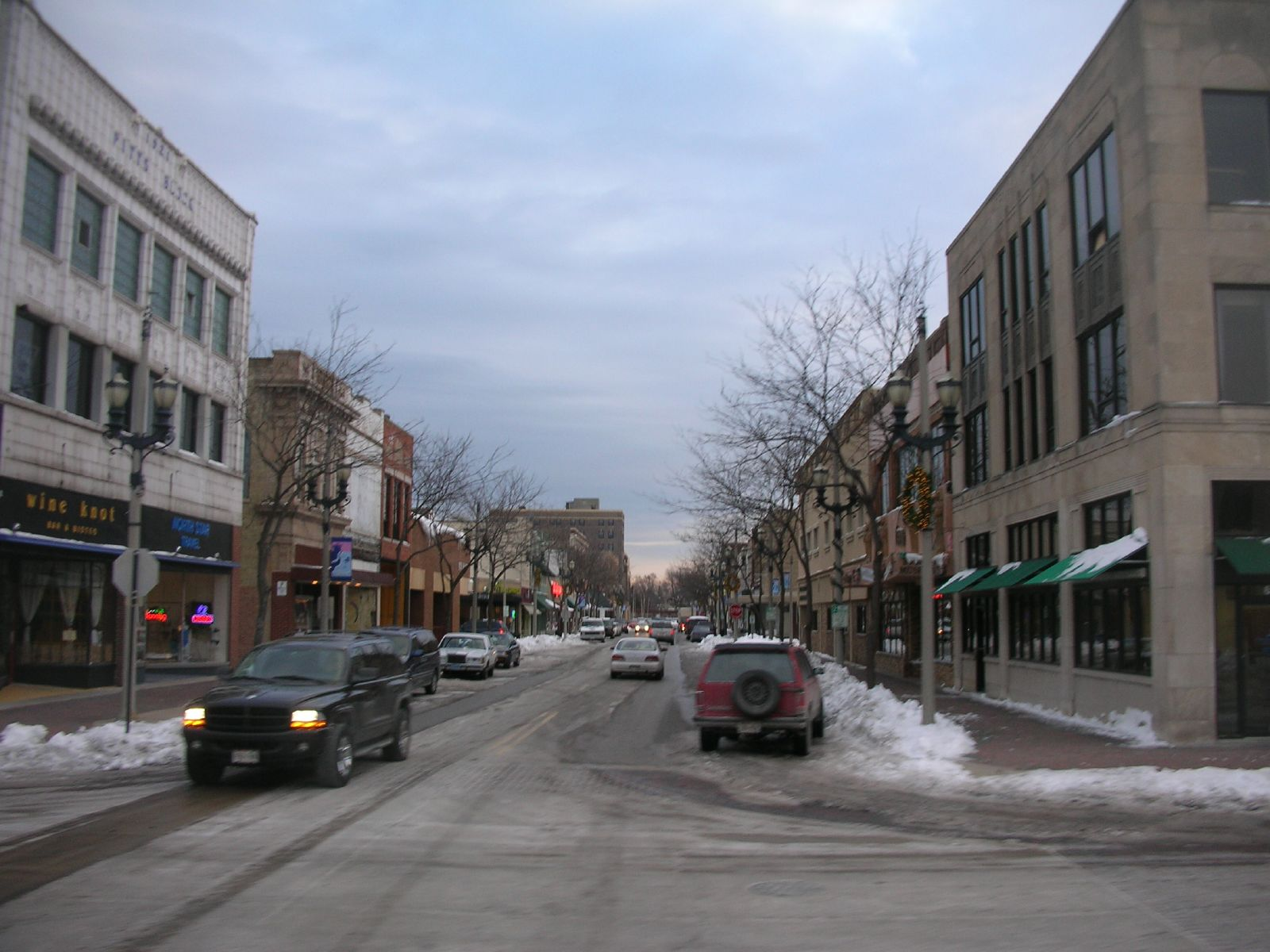 Downtown Kenosha, Wisconsin, USA